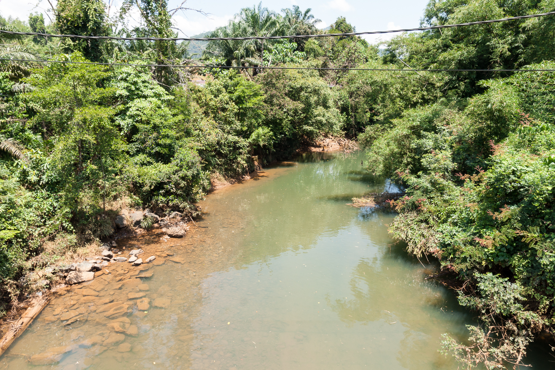 Rivers of Sabah, Malaysia: Sungai Maliau; near Kg. Maliau at the road A4 Telupid - Sandakan, 200 m before Sungai Maliau joins Sungai Labuk